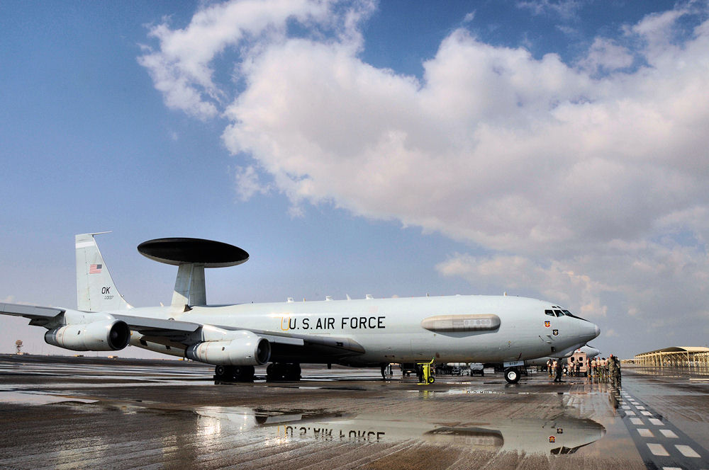 An E-3 Sentry prepares for take- off from the 380th Air Expeditionary Wing, Jan. 15. Maj. Jon Williams, 963rd Expeditionary Airborne Air Control Squadron, mission crew commander was aboard making his one-year's worth of hours flight. Major Williams is from Edmond, Okla. and his home station is Tinker Air Force Base, Okla.(U.S. Air Force photo by Senior Airman Brian J. Ellis) (Released)